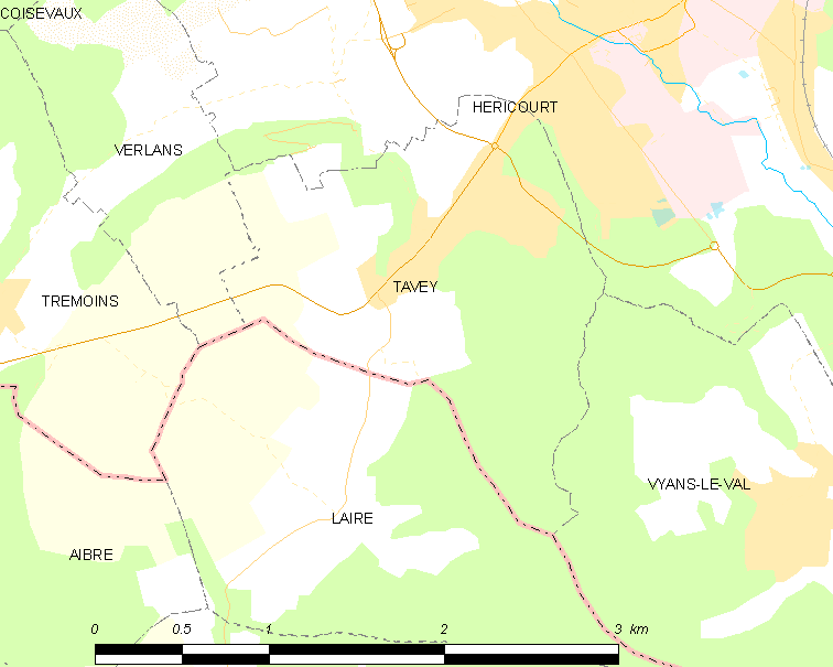 Map of French municipality